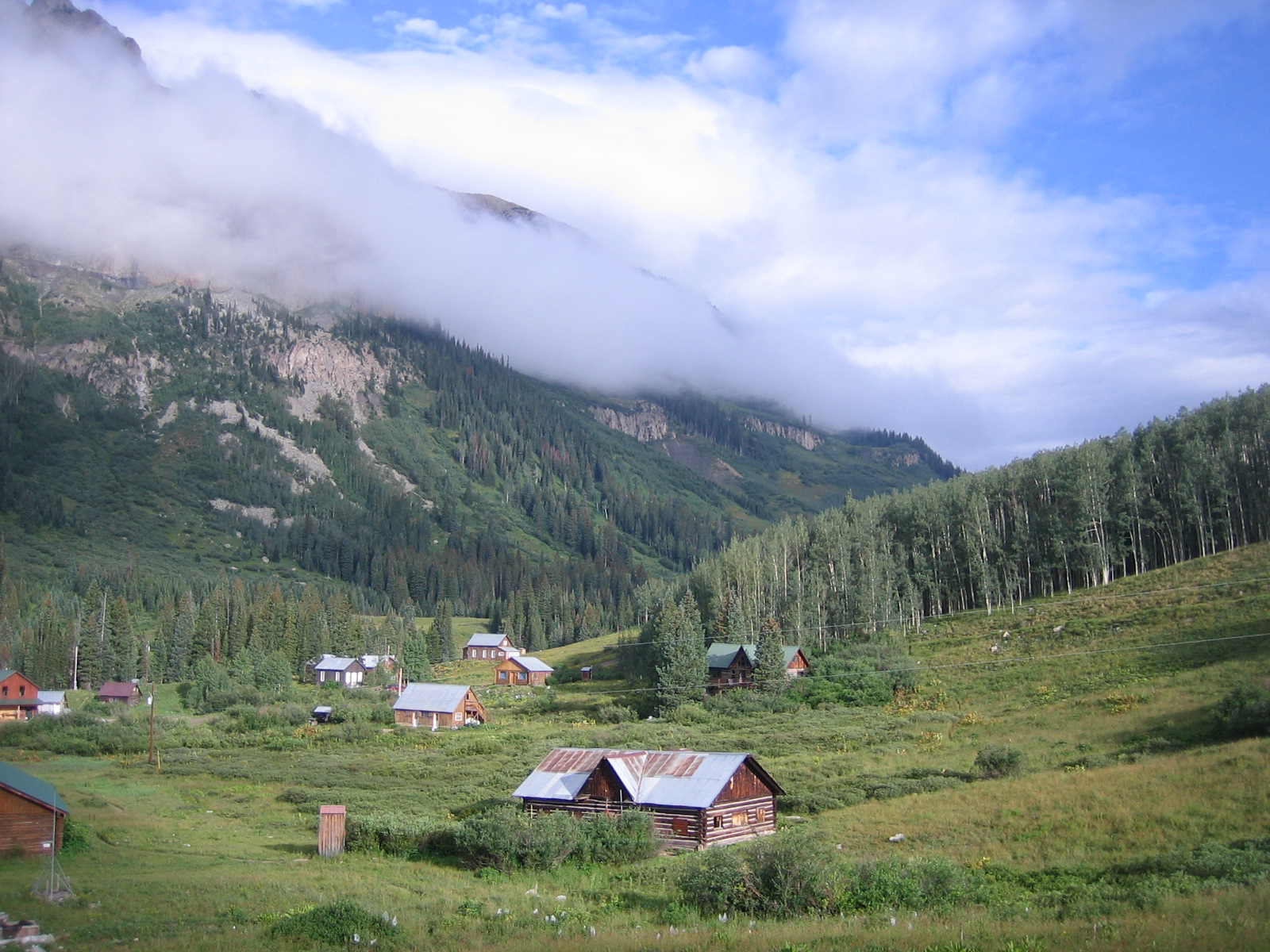 Gothic mountain shrouded in clouds behind several cabins in the Rocky Mountain Biological Laboratory in Gothic, Colorado, USA